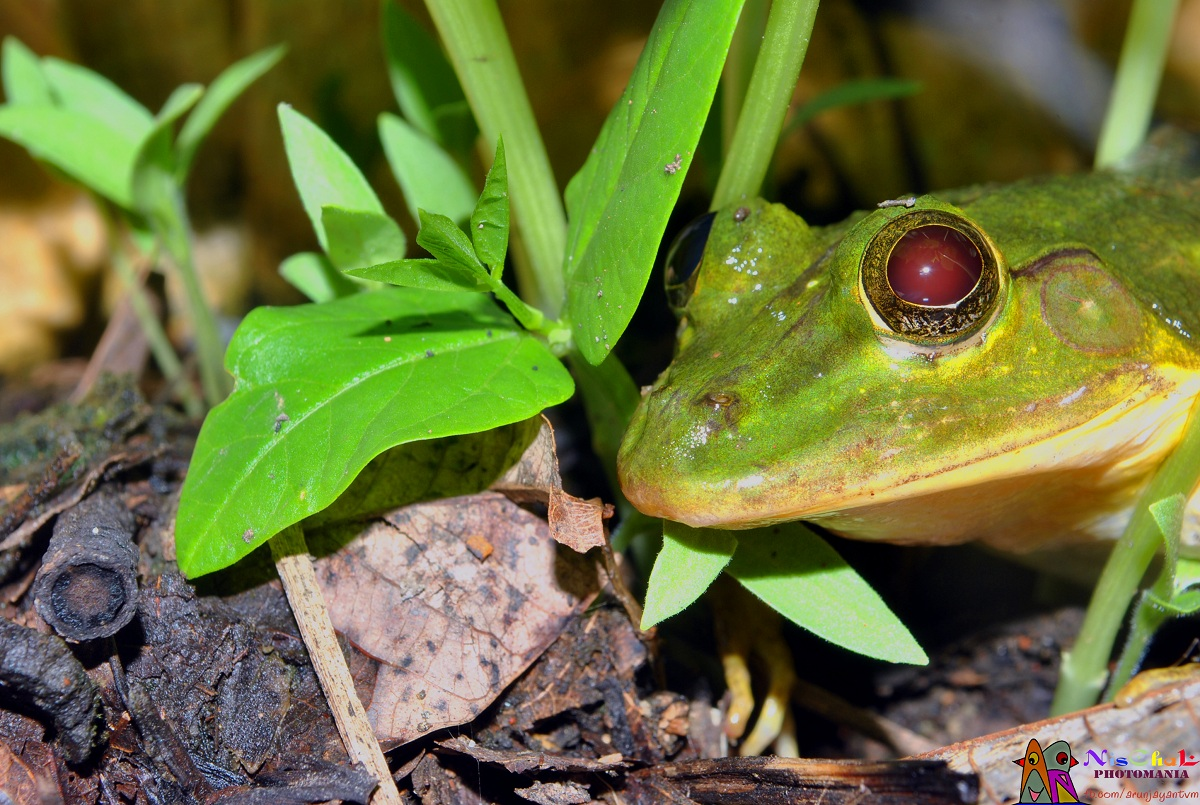 green frog starring at camera